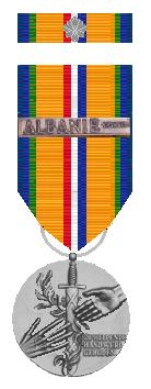 Dutch Medal for humanitarian aid after disasters